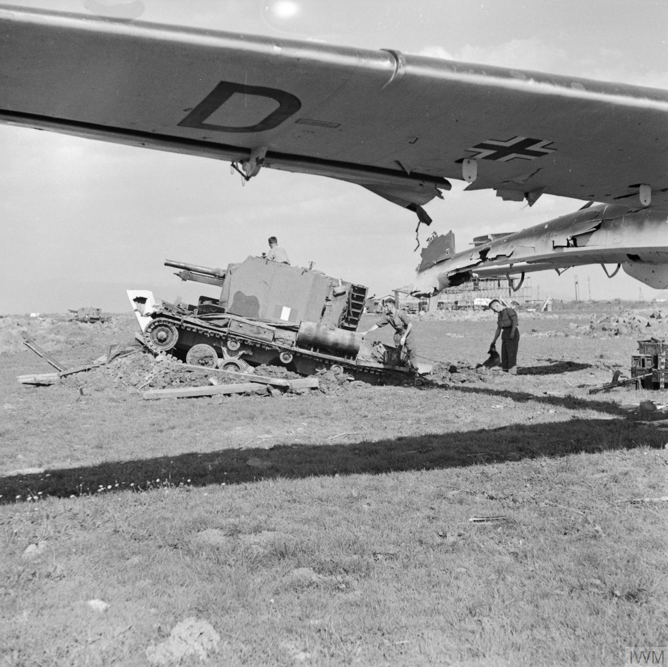 The British Army in Italy 1943 A Bishop 25-pdr self-propelled gun of 142nd Field Regiment Royal Artillery operating at a captured airfield among the wreckage of German Gotha Go 242 aircraft, 12 October 1943.